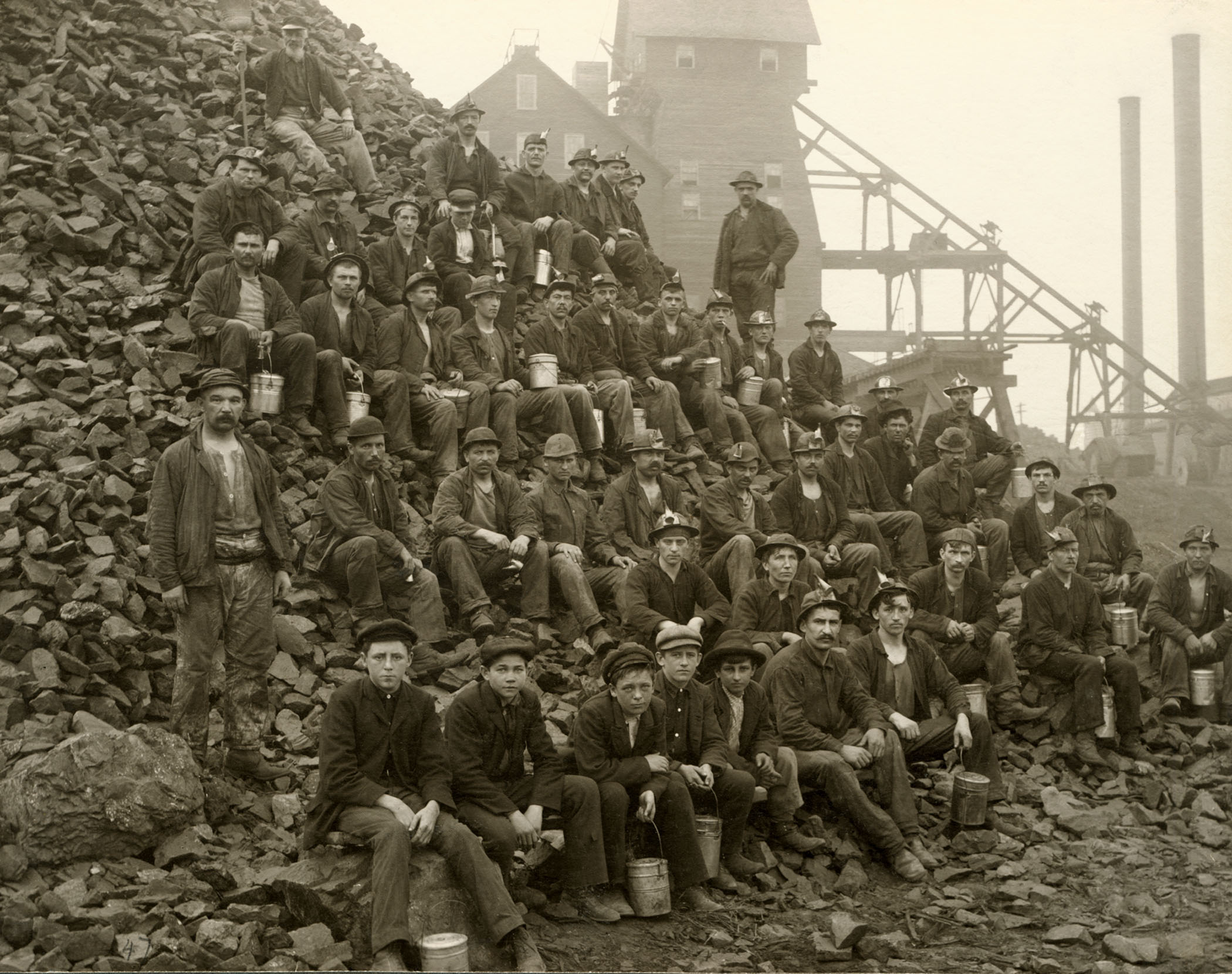 Upper Peninsula Michigan, USA, 1905. Miners pose with lunch pails in hand on a pile of "poor rock" (waste rock) outside of the Tamarack mineshaft. In the background is the Tamarack #5 Shaft-Rockhouse. This mine was one of the most productive mines in Copper Country. The men are carrying lunch pails, but some have not yet changed their street clothes for work clothes (or perhaps have already changed to go home, depending on whether they are going to work or going home from work).